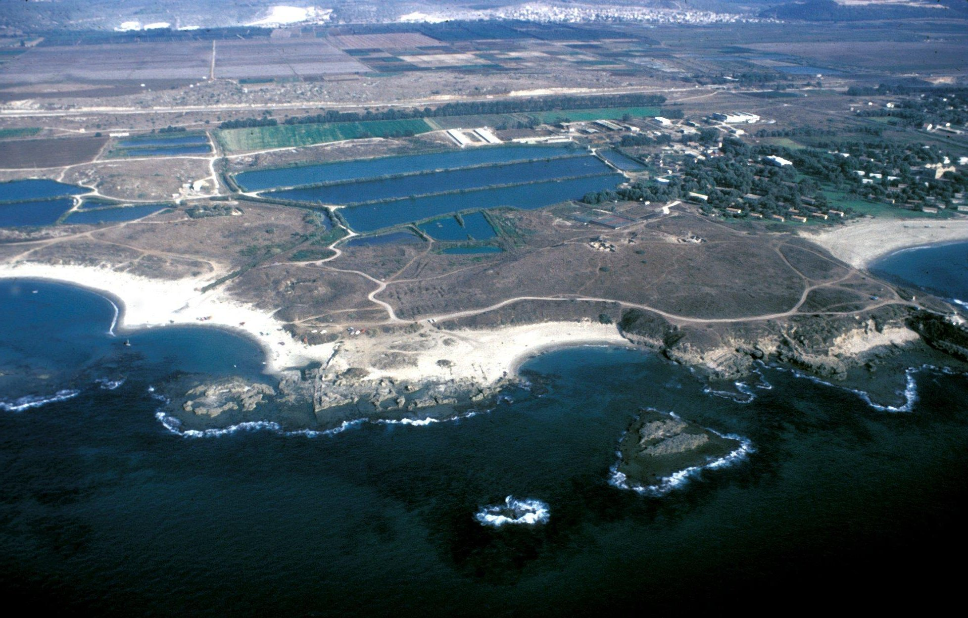 Tel Dor's shoreline, Geography of Israel